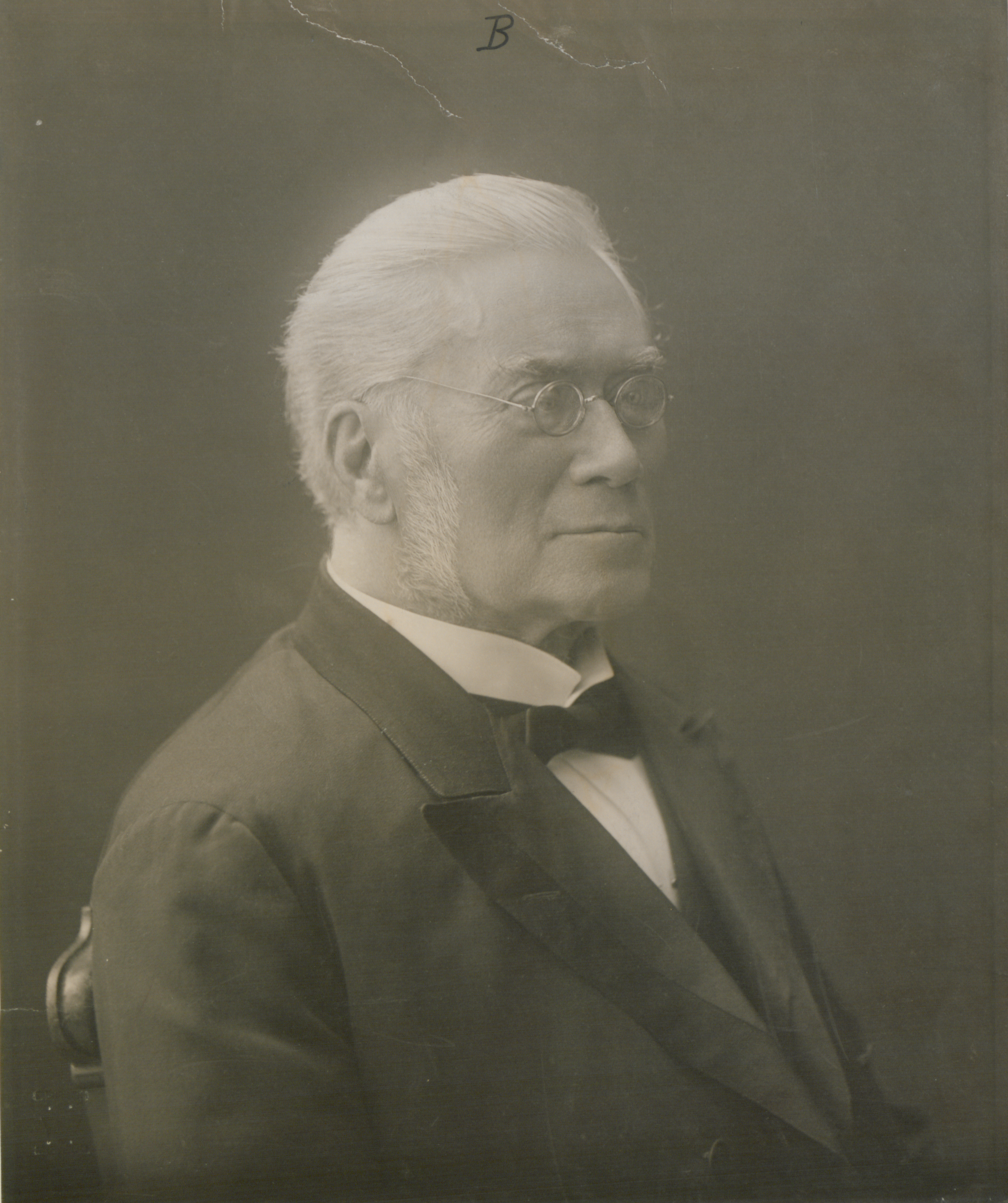 Original caption: “Lieutenant Governor the Honourable Sir Oliver Mowat. Photo B.”